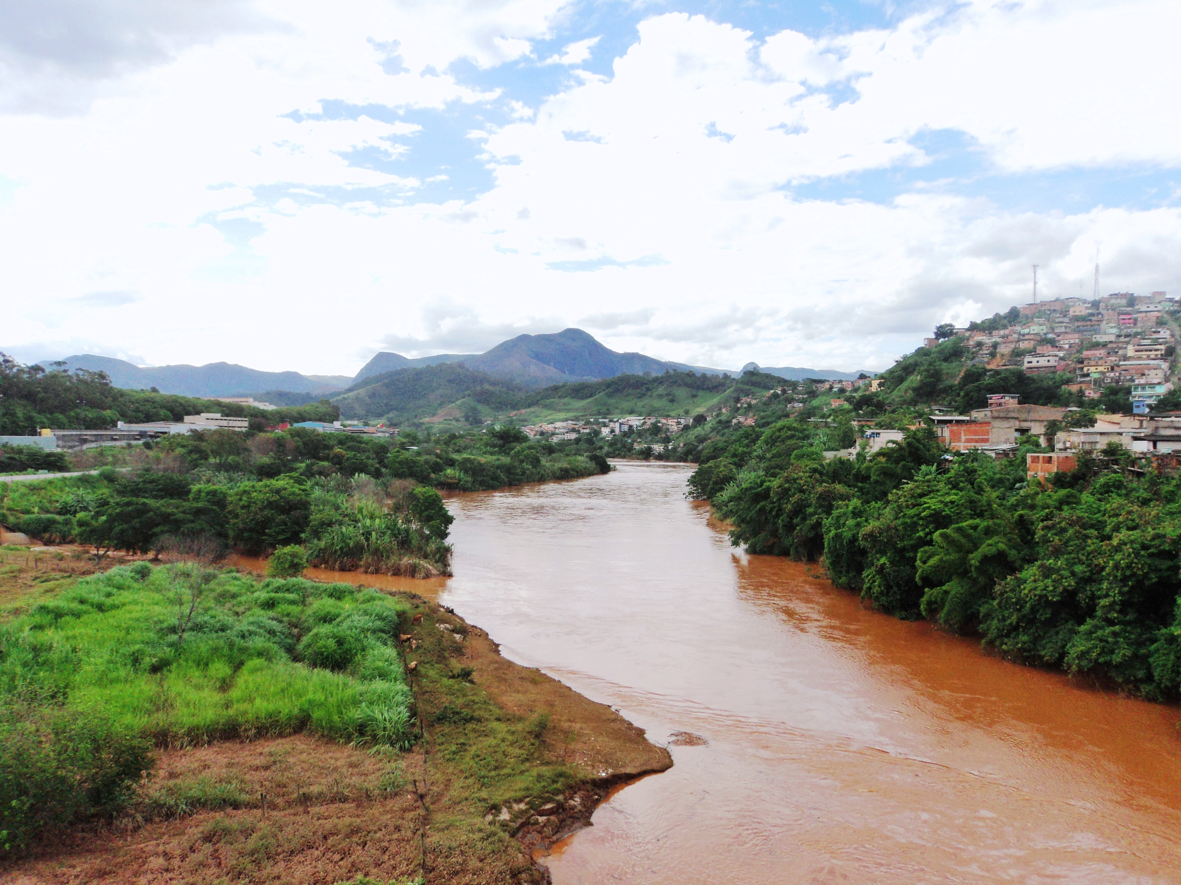 Piracicaba River between Timóteo and Coronel Fabriciano, Minas Gerais, Brazil.